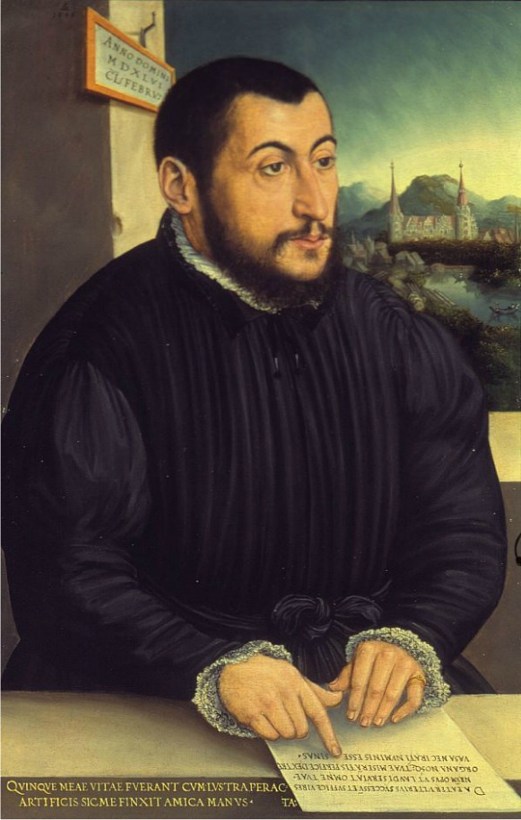 Petrus Canisius by "A.E." in 1546